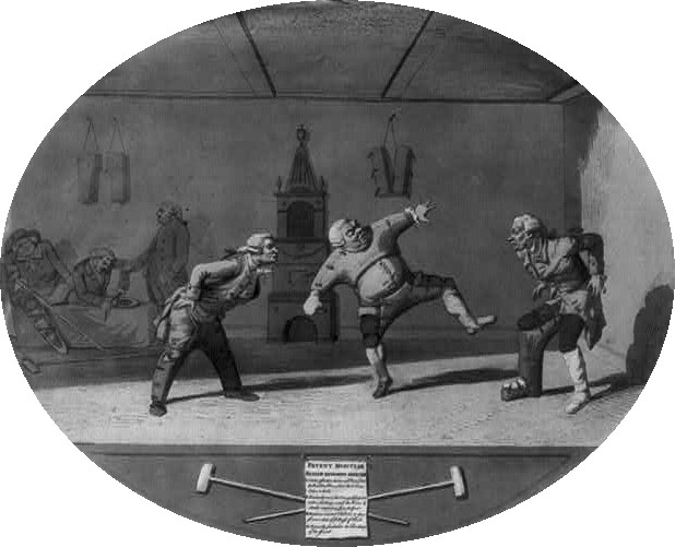 Title: Les caprices de la goute, ballet arthritique. Library of Congress description: "Satire showing men with limbs strapped in wooden cases performing exercise for gout in the establishment of Abraham [sic] Buzaglo." See: William Buzaglo